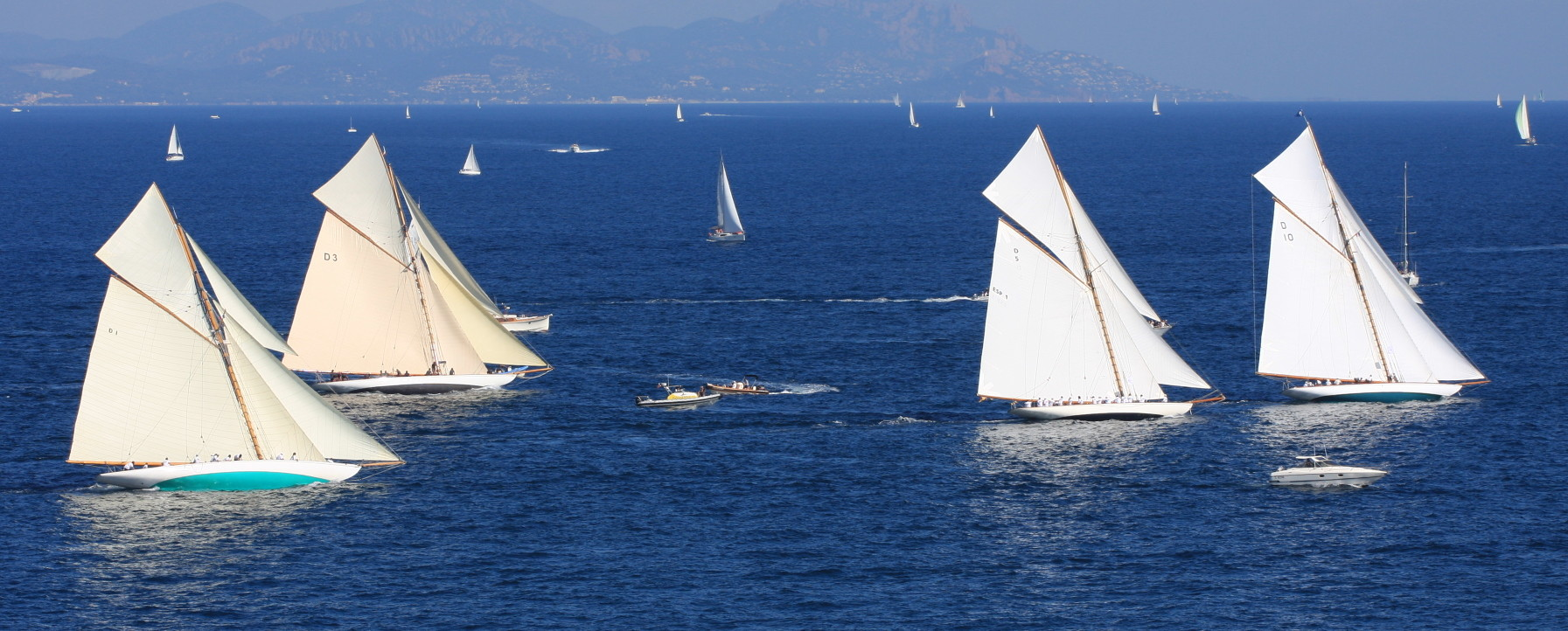 Mariska (D1), Tuiga (D3), Hispania (D5) and The Lady Anne (D10) were all built to the IYRU 15mR class. They were photographed after the starting gun in the 2012 Voiles de Saint Tropez.